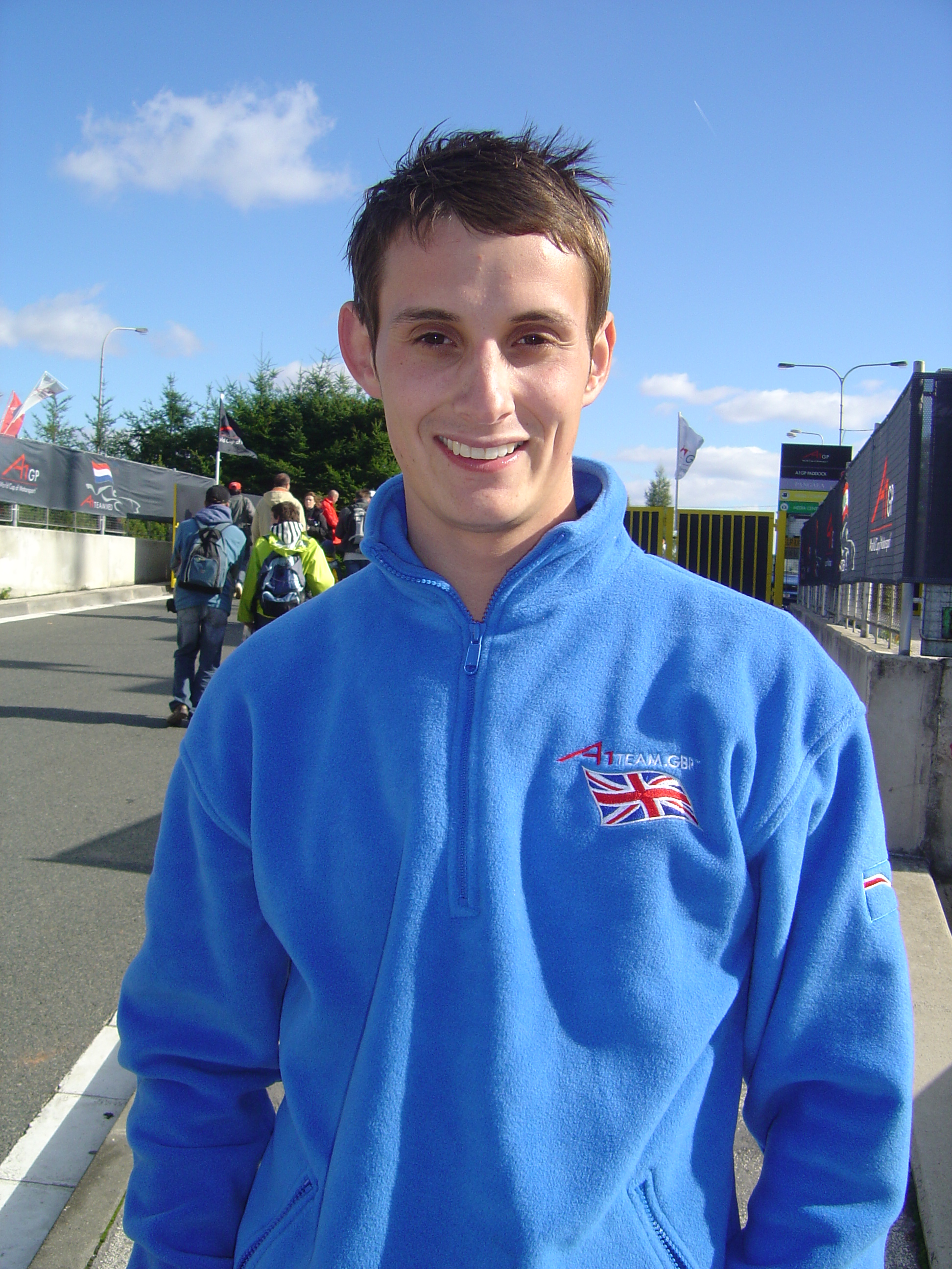 Oliver Jarvis: the photo was taken during 2007's A1GP race weekend at Brno